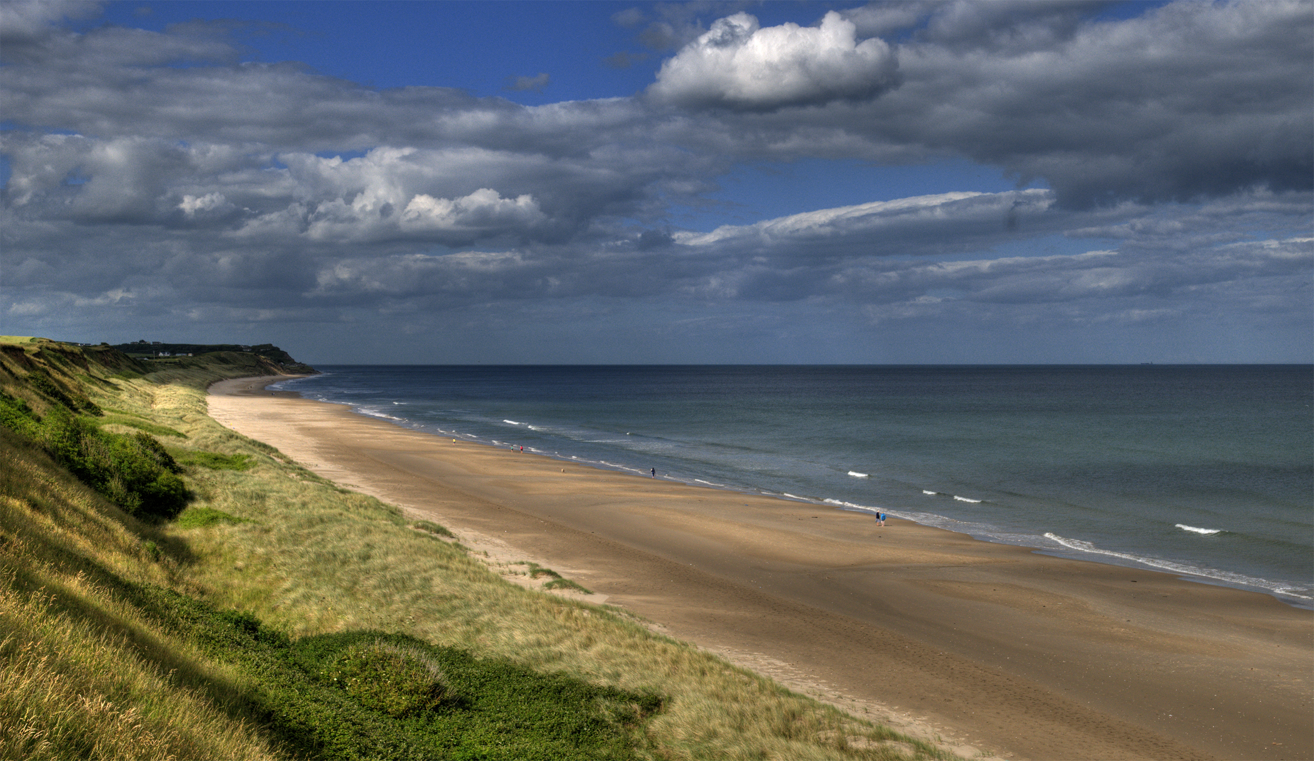 Ballinesker Beach, Curracloe Stand, Ballinesker, east of Curracloe, Wexford, Ireland